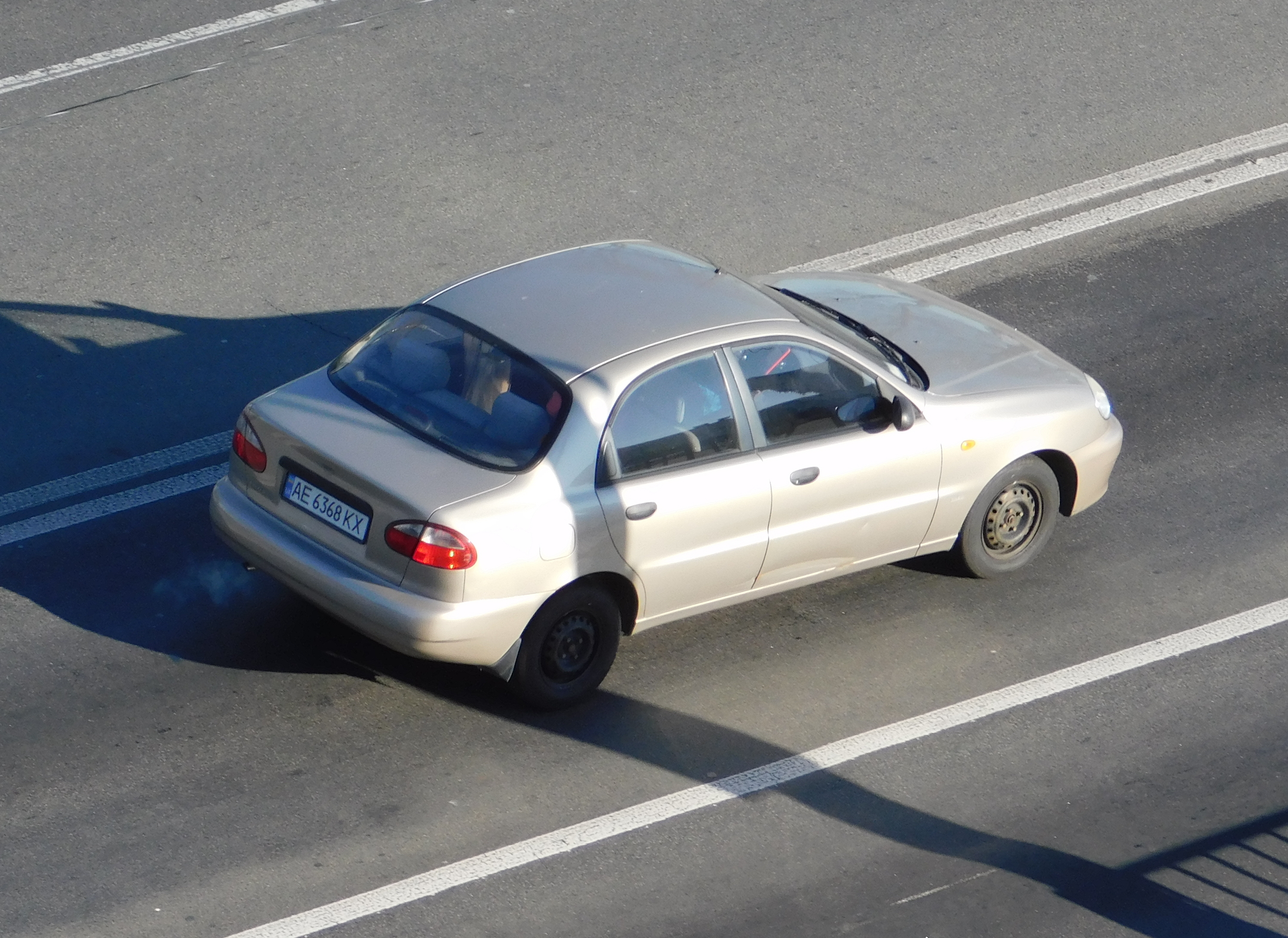 Daewoo Lanos - АЕ 6368 КХ, on the road